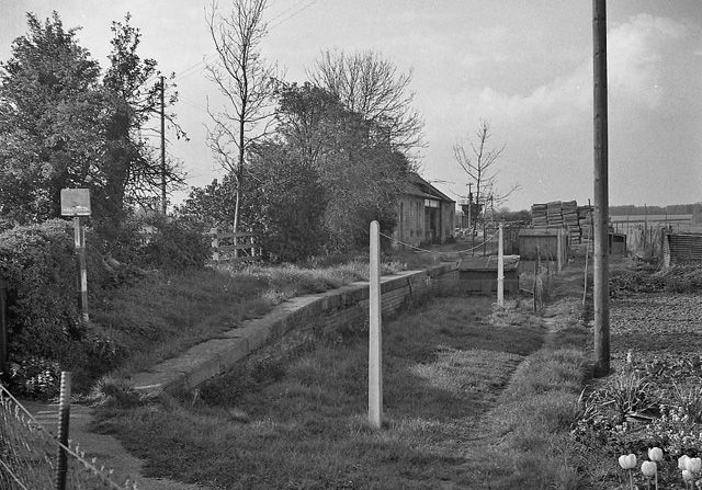 Barnack Station (remains). View southward, towards Wansford; ex-Great Northern Stamford - Wansford branch. The station and line had been closee entirely since 1/7/29, but much remained - in agricultural use - over 30 years later.